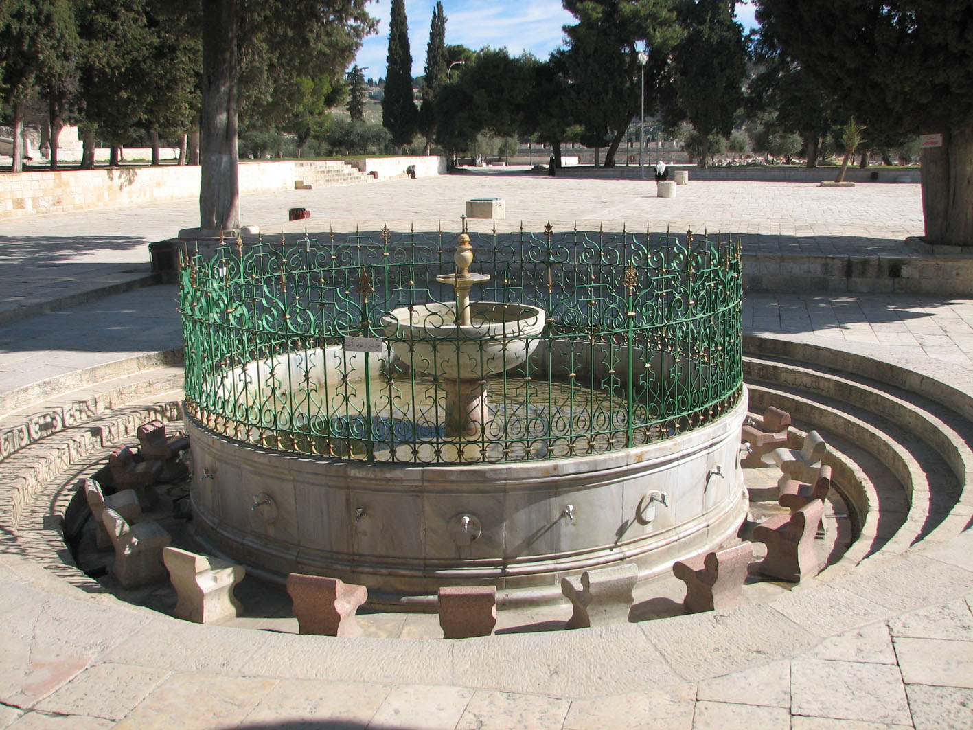 Al-Aqsa Mosque